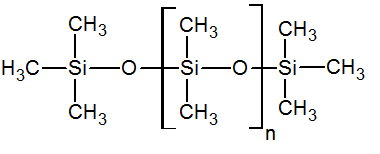 chem